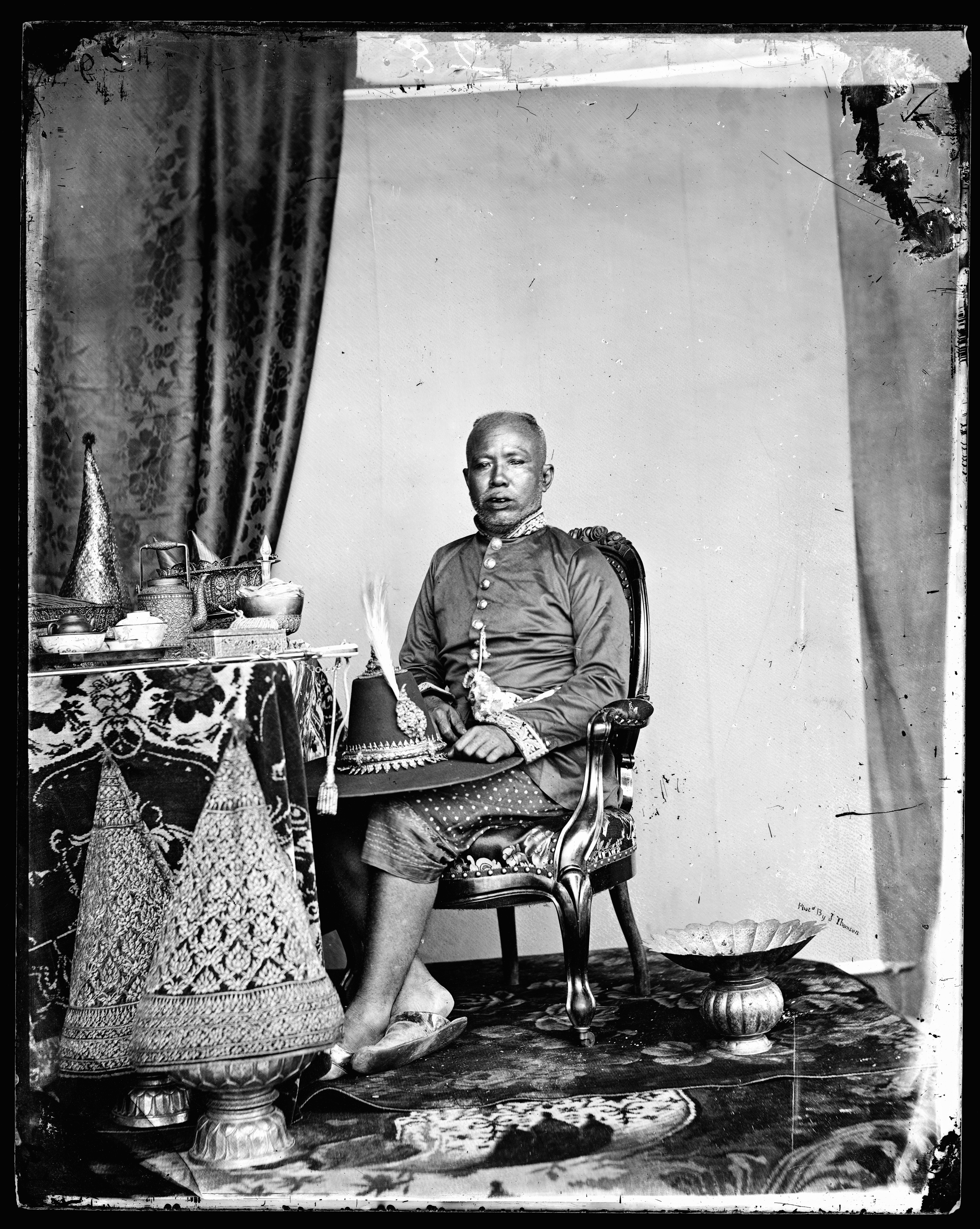 Mahamala, Prince Bamrapporapak, a son of Phutthaloetla Naphalai Iconographic Collections Keywords: J. Thomson